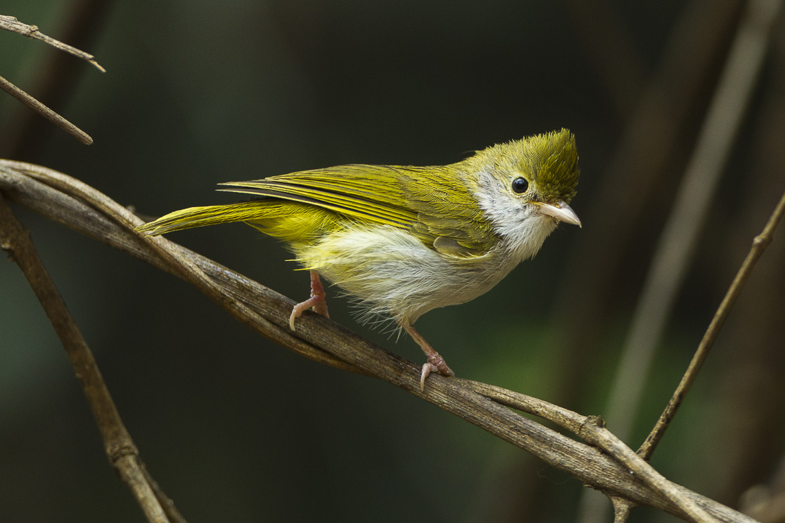 White-bellied Yuhina - Central Thailand_S4E7097